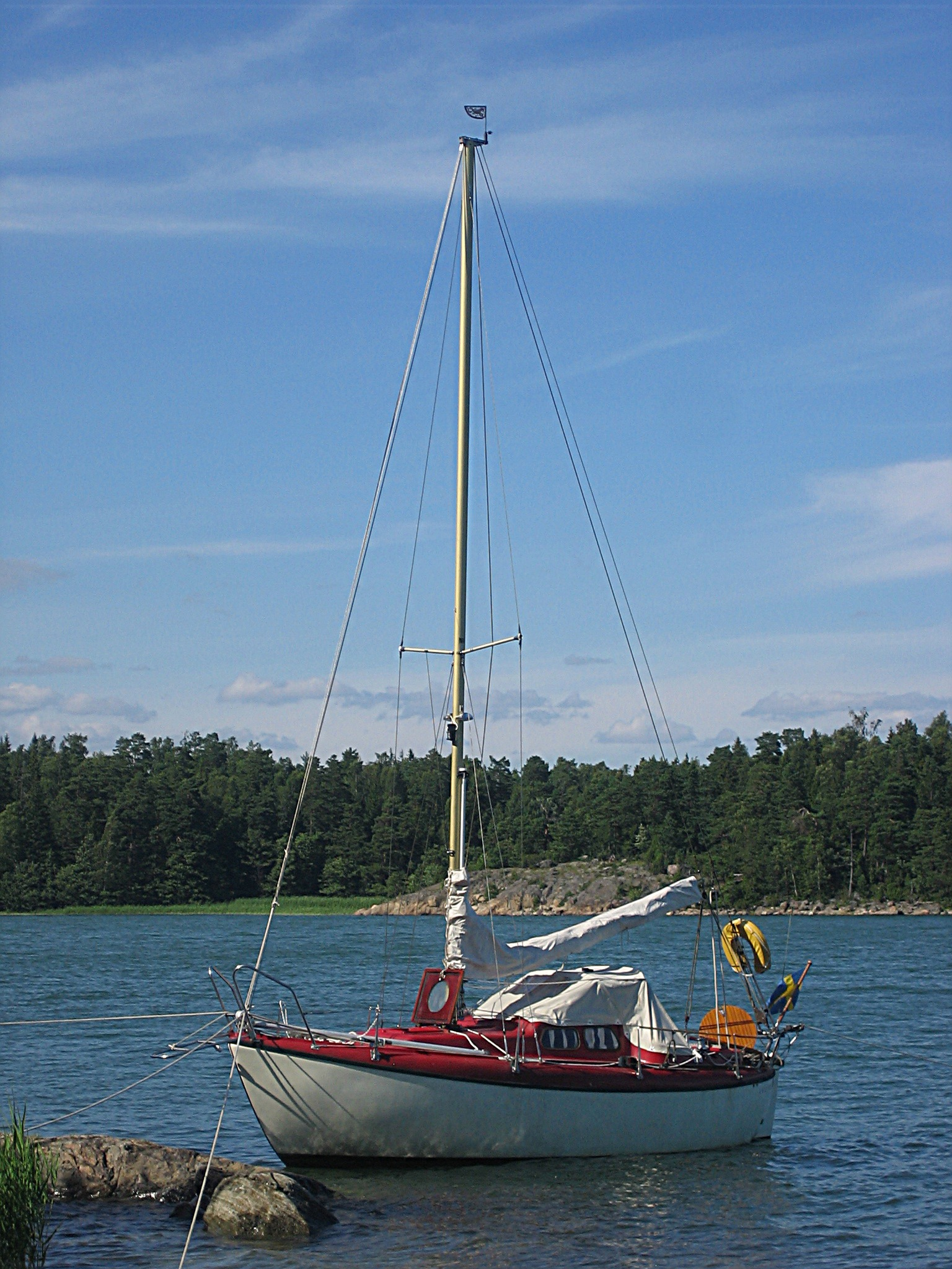 A Havsfidra (Koster, Spitsgatter, Double ender), moored on the northeastern shore of the island Fågelö in Trosa archipelago, 57 km southsouthwest of Stockholm, Sweden.